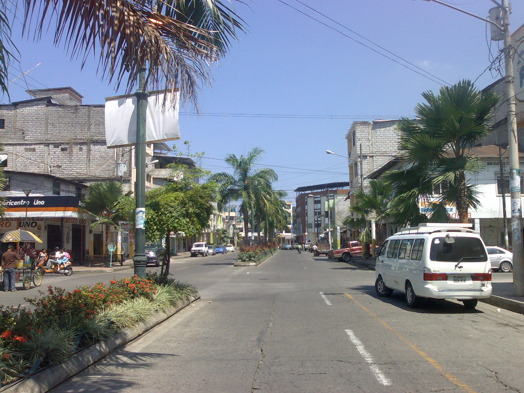 Downtown of Quevedo, Ecuador